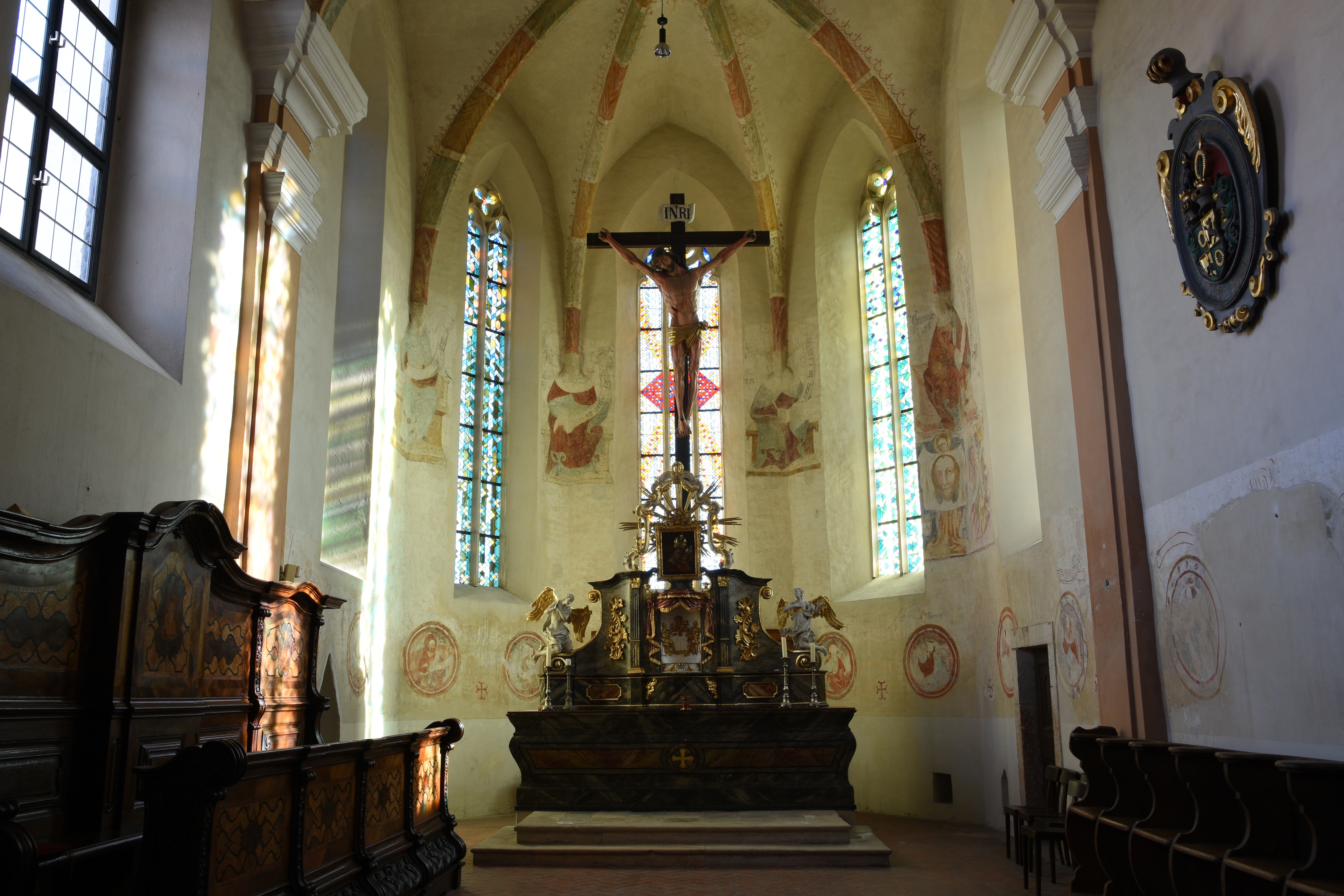 Church Augustiner Eremiten Kirche Fürstenfeld - Interior